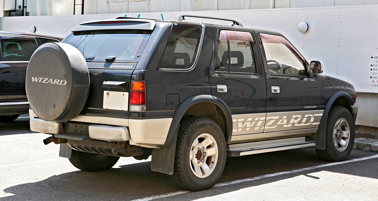 First generation Isuzu Mu Wizard, 3.1D Turbo Type X ( UCS69GW / December 1995 ~ June 1998 )